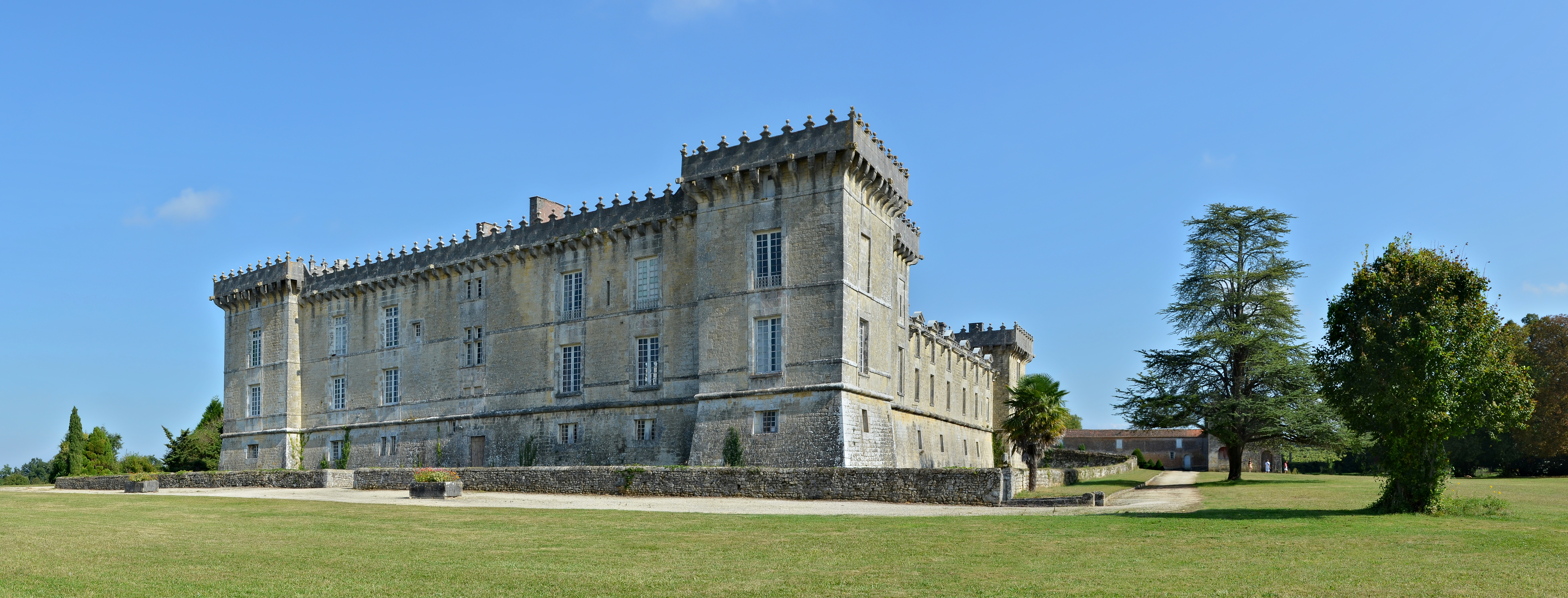 West view of Château Chesnel, Cherves-Richemont, Charente, France.